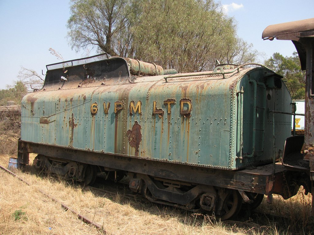 S Class tender, possibly from S-367. Photographed at SANRASM North Site.